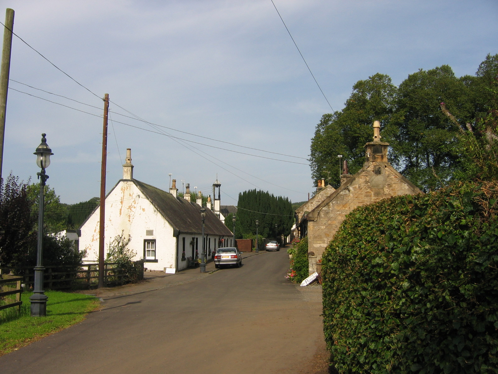 Dalserf, South Lanarkshire, Scotland.